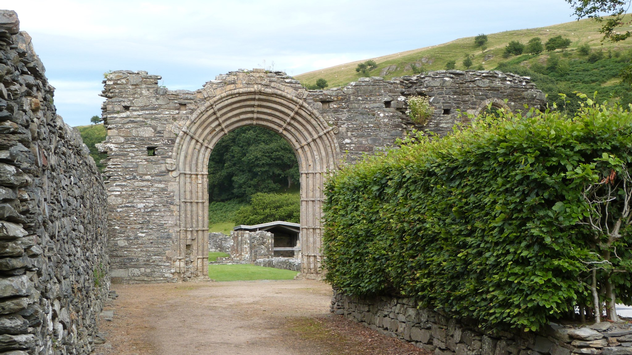 Strata Florida Abbey is a former Cistercian abbey situated near Tregaron in Ceredigion, Wales. The abbey was originally founded in 1164. The abbey was dissolved by Henry VIII in 1540 and much of the stone from the church was recycled into local buildings that still stand today.